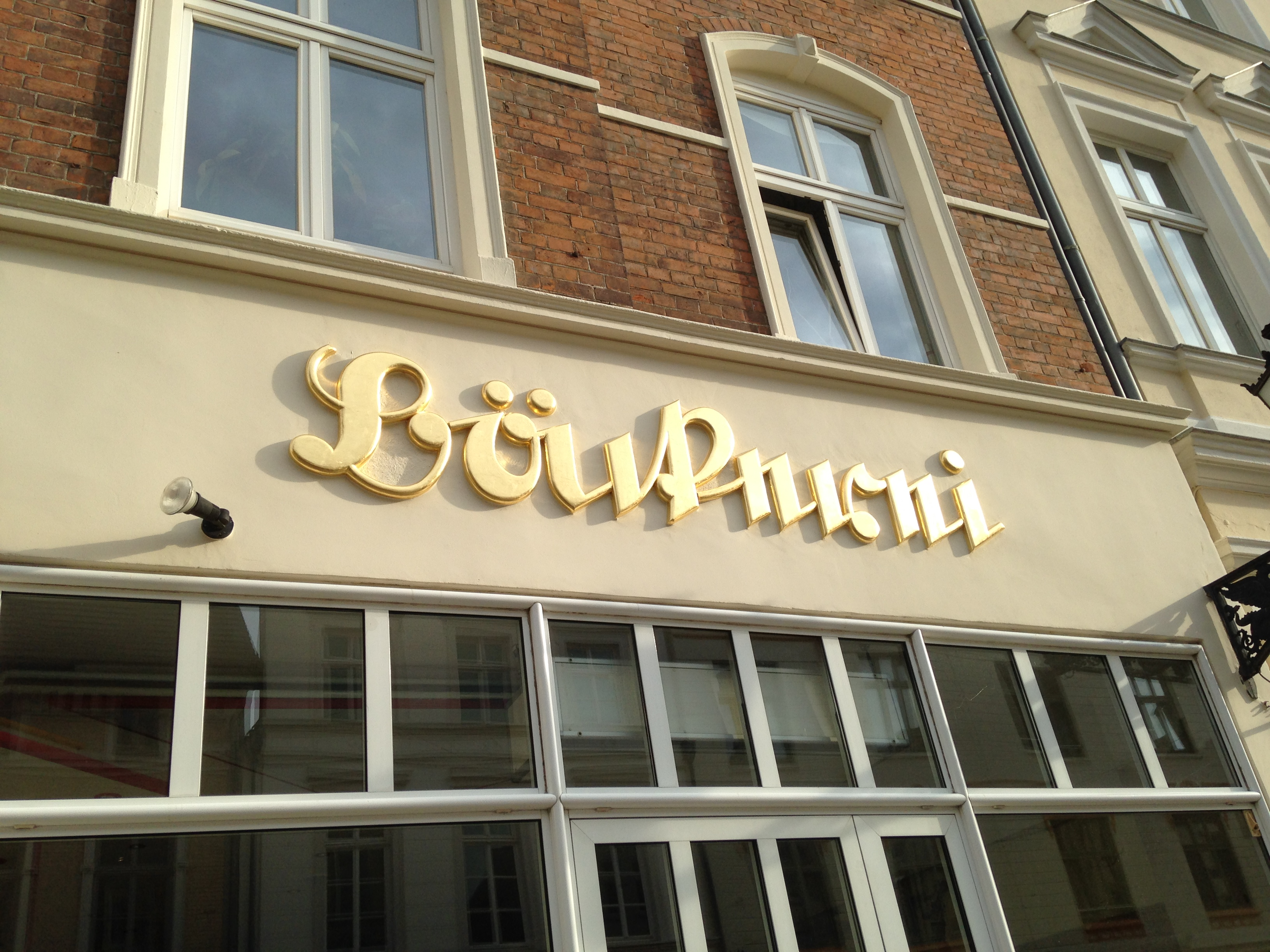 The text "Bäckerei" in Sütterlin script in Wismar, Germany.